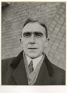 P.A.H. Hornix